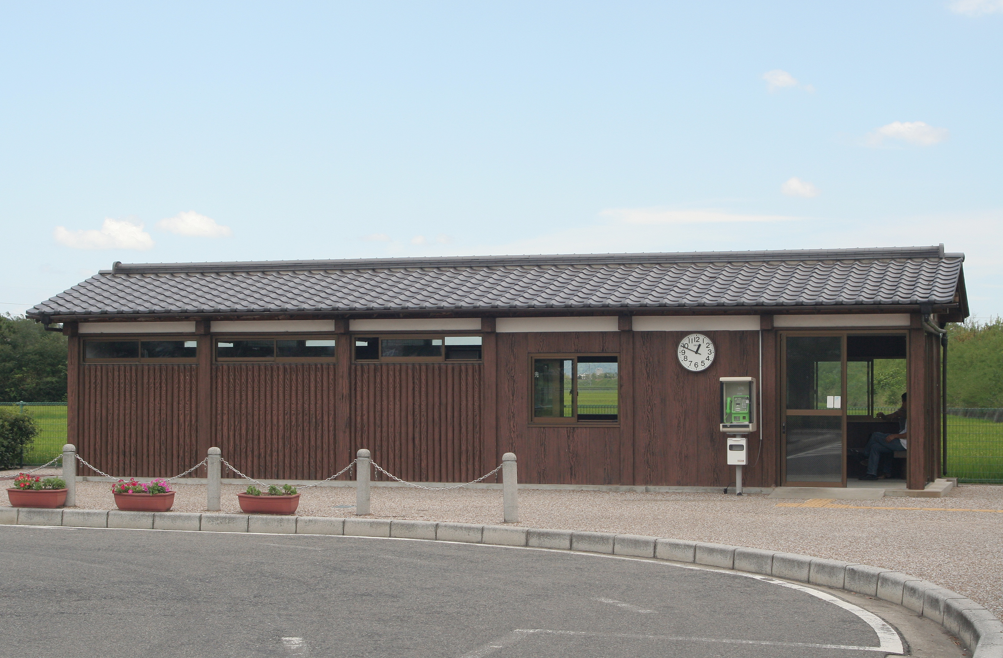 Ibara Railway Bitchū-Kurese Station waiting room